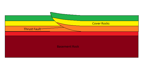 Illustration of thin-skinned deformation caused by a thrust fault.